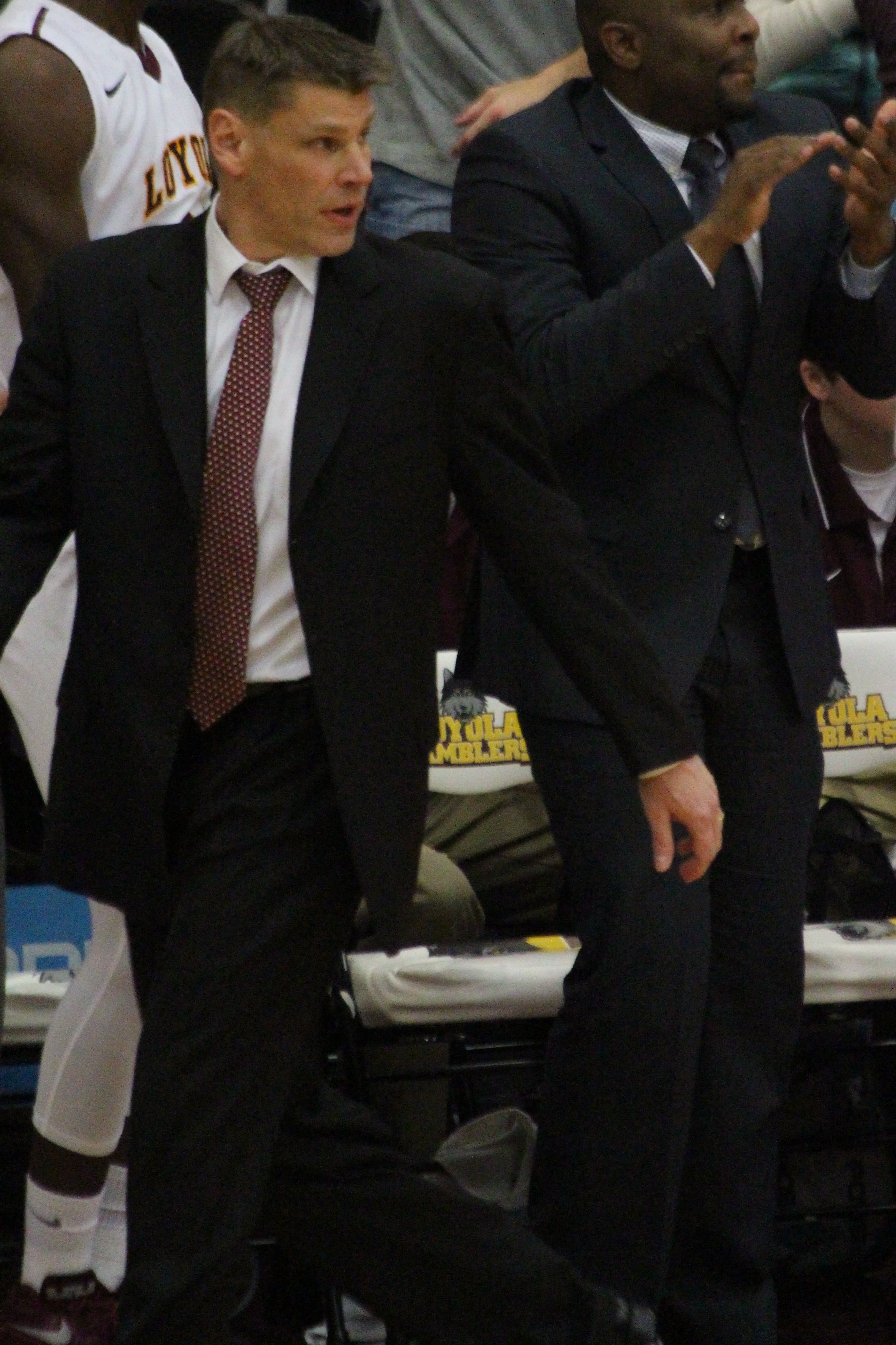 Porter Moser head coach of the w:2014–15 Loyola Ramblers men's basketball team at the Joseph J. Gentile Arena